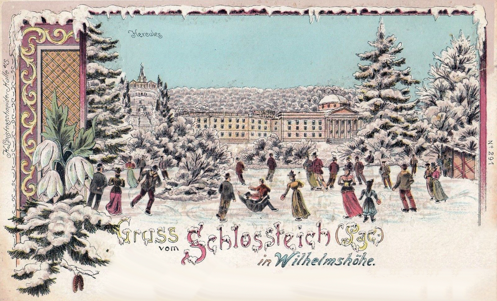 Postcard used in Cassel 1901, published by K. Leistenschneider